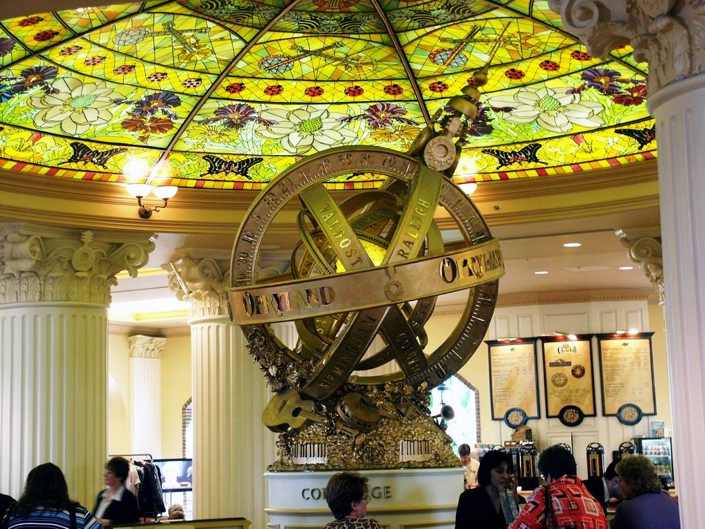 Lobby Opryland, Nashville